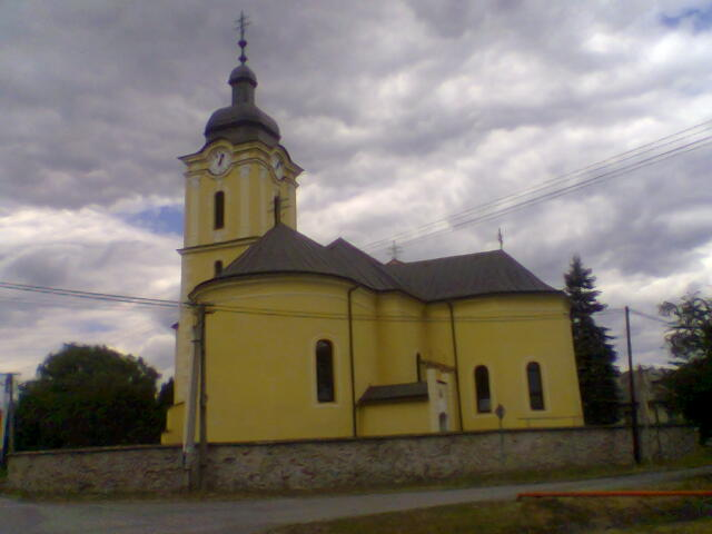 Church of St. Andrew in Pecovska Nova Ves